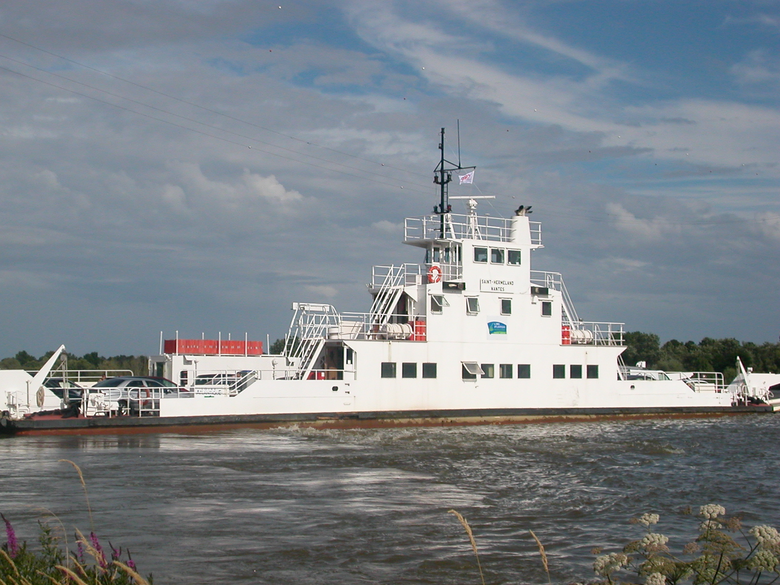 River ferry joining Couëron and Le Pellerin on the Loire River